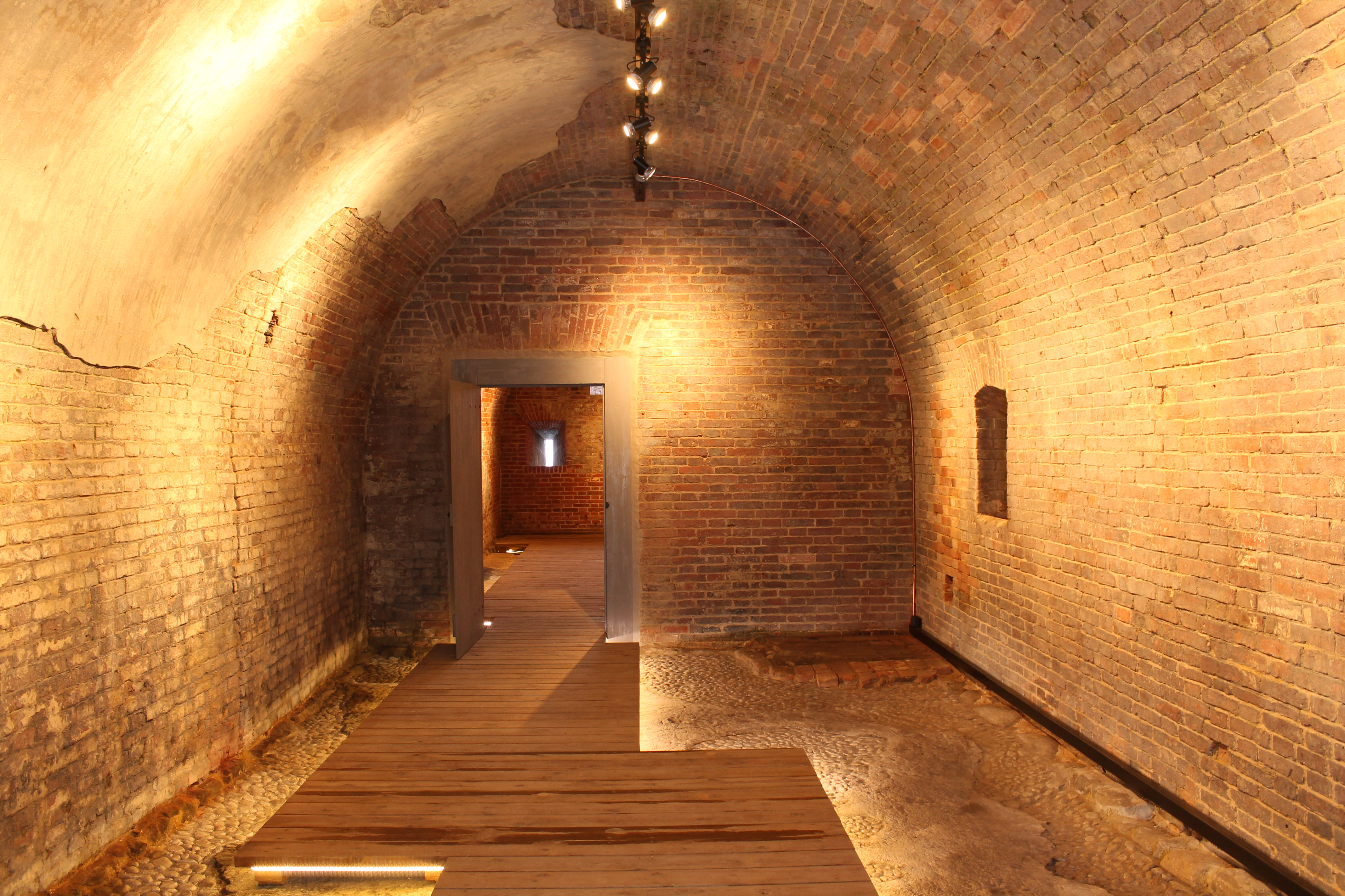 A view of inner rooms (formerly for prisoners) of the Nicholas Gate in Daugavpils Fortress